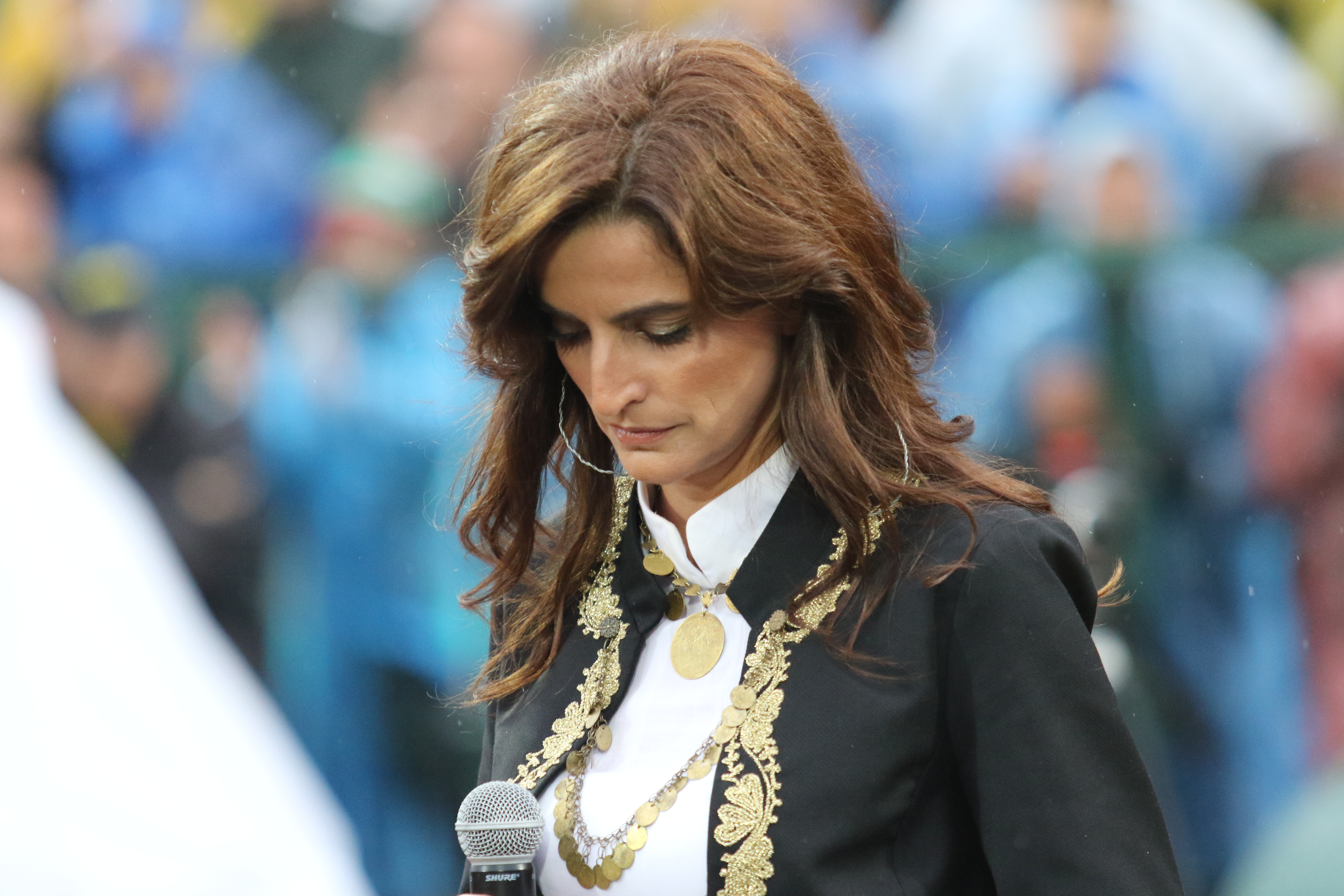 Nina Nikolina - bulgarian pop and folk singer